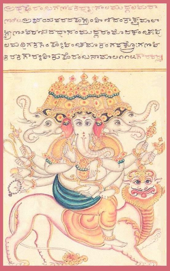 Depiction of the Heramba form of Ganesha, on his mount, a lion. Upper area shows a description of the form as a meditation verse written in Kannada script. Reproduction from the Sritattvanidhi ("The Illustrious Treasure of Realities"), an iconographic treatise compiled in the 19th century in Karnataka, India, by order of the then Maharaja of Mysore, Krishnaraja Wodeyar III (b. 1794 - d. 1868).